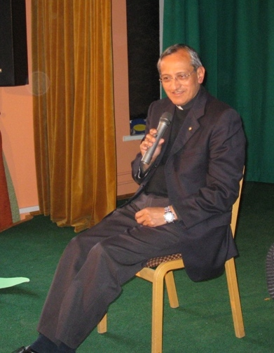 Don Pascual Chaves